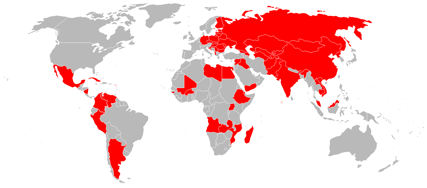 World map of Mil Mi-8 operators